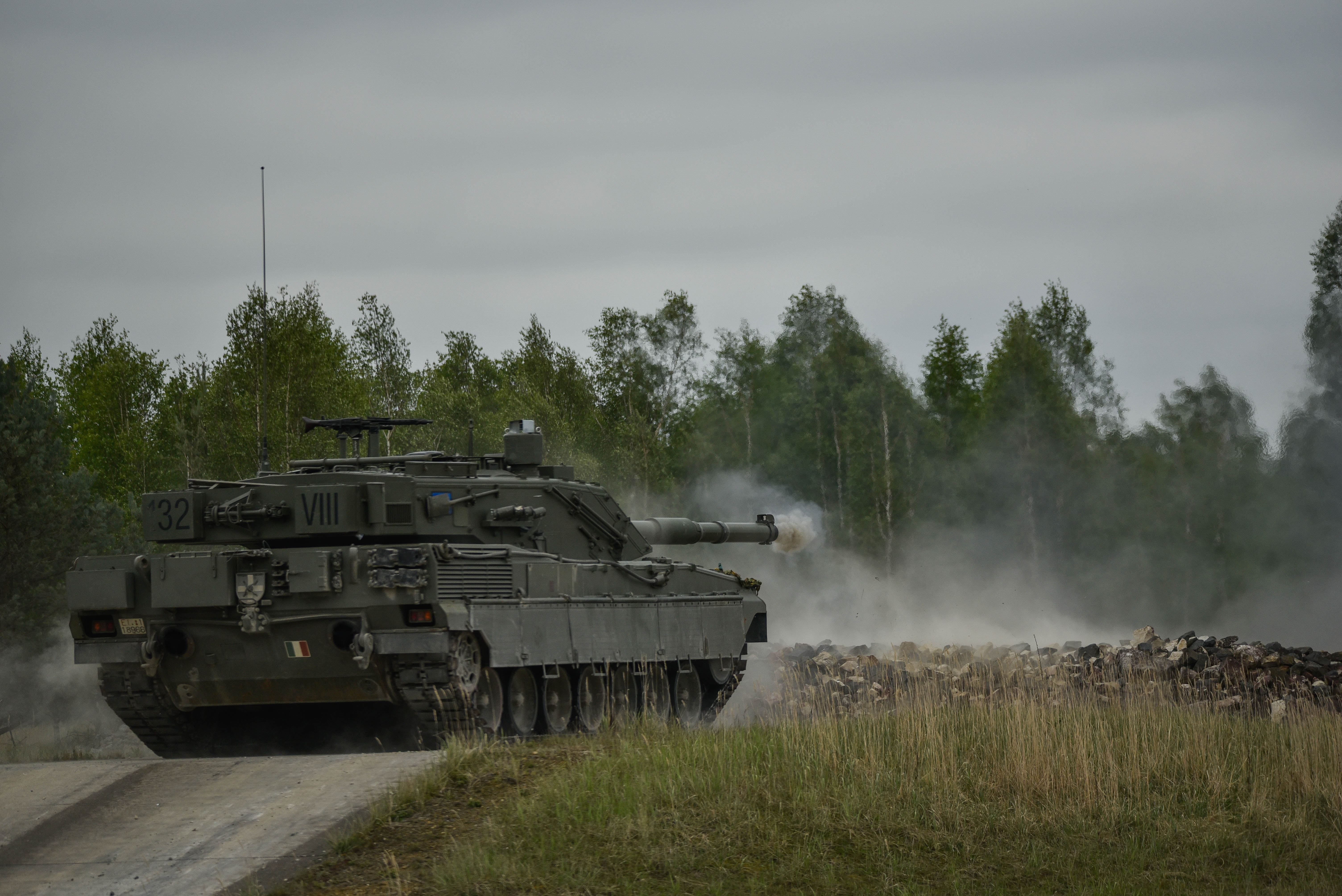 An Ariete Italian tank, fires at their target, during the Strong Europe Tank Challenge (SETC), at the 7th Army Joint Multinational Training Command’s Grafenwoehr Training Area, Grafenwoehr, Germany, May 12, 2016. The SETC is co-hosted by U.S. Army Europe and the German Bundeswehr, May 10-13, 2016. The competition is designed to foster military partnership while promoting NATO interoperability. Seven platoons from six NATO nations are competing in SETC - the first multinational tank challenge at Grafenwoehr in 25 years. For more photos, videos and stories from the Strong Europe Tank Challenge, go to (U.S. Army photo by Spc. Nathanael Mercado/Released)